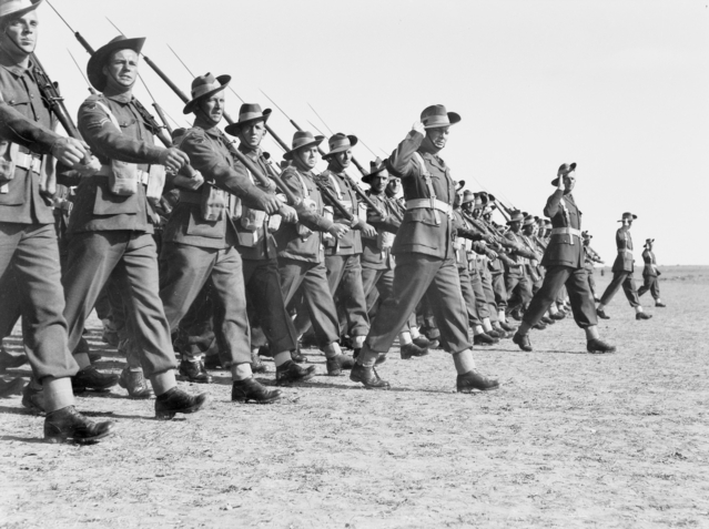 AWM Caption: GAZA, PALESTINE. 1942-12-22. ON THIS DAY GENERAL SIR HAROLD R.L.G. ALEXANDER, KCB, CSI, DSO, MC, COMMANDER-IN-CHIEF, MIDDLE EAST FORCES, INSPECTED A PARADE OF THE WHOLE OF THE 9TH AUSTRALIAN DIVISION AT GAZA AIRPORT AND PRAISED AND THANKED THEM FOR THEIR PART IN THE BATTLE OF EL ALAMEIN. TROOPS OF THE 20TH AUSTRALIAN INFANTRY BRIGADE IN THE MARCH PAST.